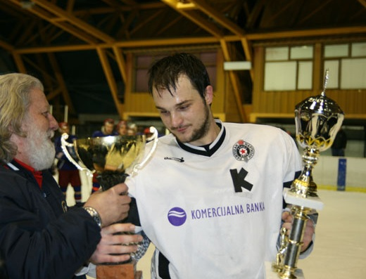 Bogdan Jankovic 2006-07